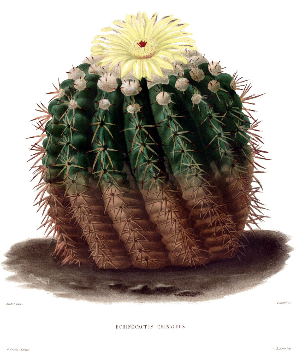 Plate from book